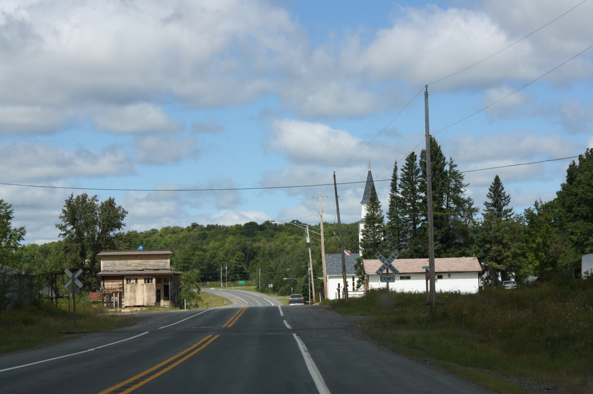 Downtown Covington, Michigan on U.S. Route 141.